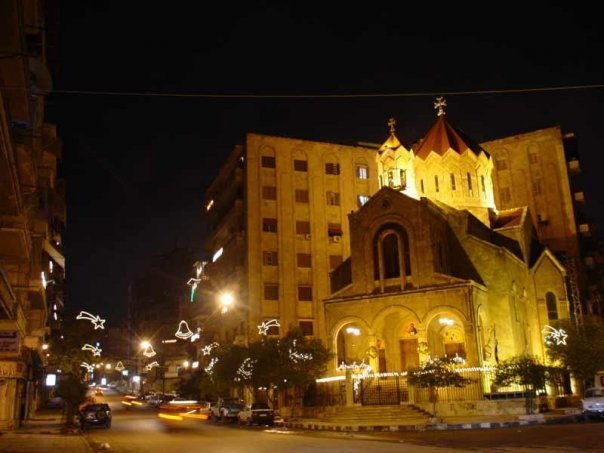 Surp Khach (Holy Cross) Armenian Catholic church, Aleppo